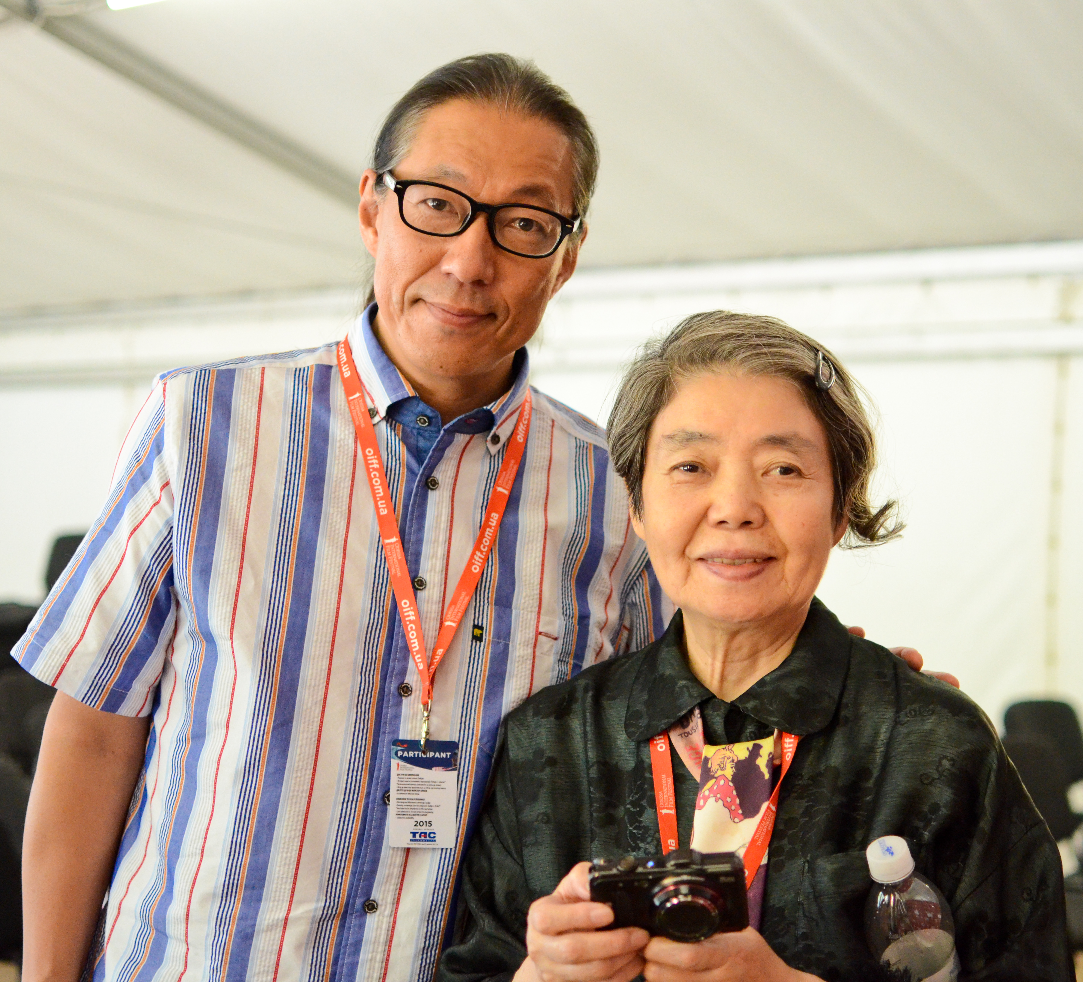 Japanese actress Kirin Kiki and writer Durian Sukegawa at the 6th Odessa International Film Festival.